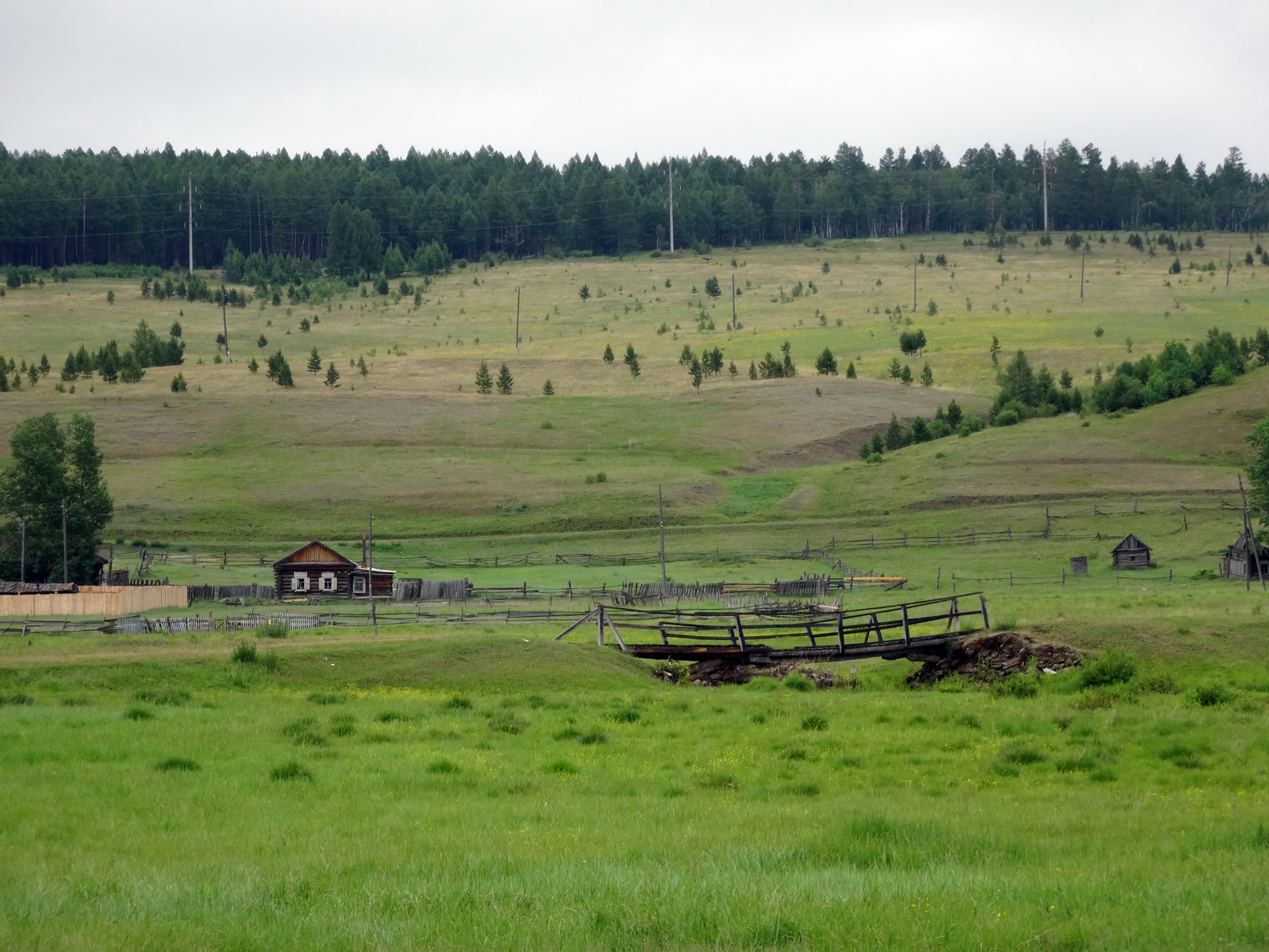 Driving through Siberia